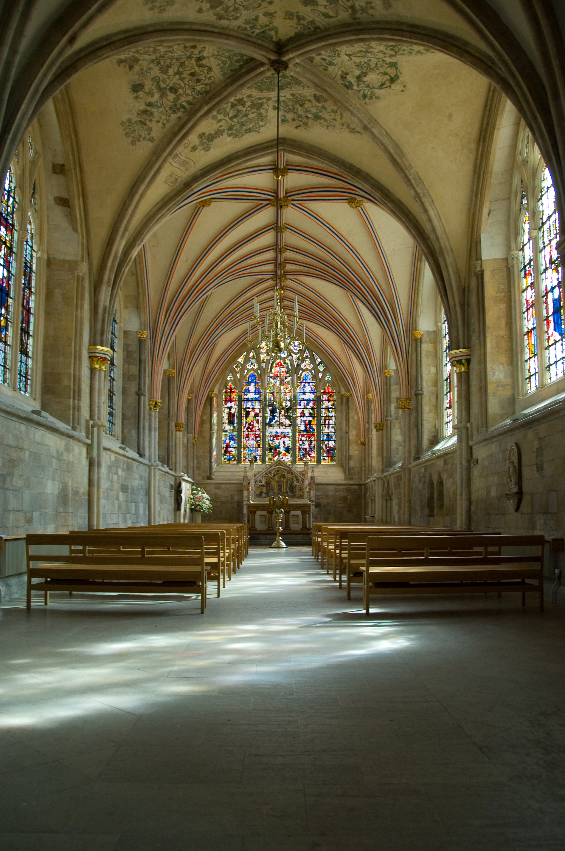 Newly refurbished and somewhat lighter than it was before. Still prefer ours here in St Albans though; not least because we were married there!